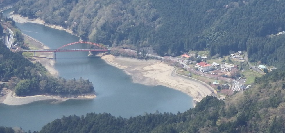 Lake Kinsha and Hirano Bridge